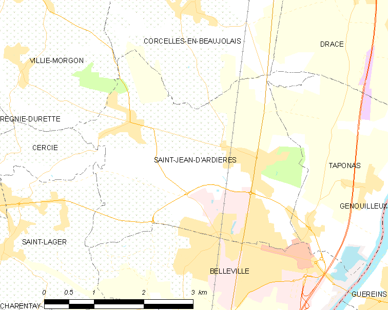 Map of French municipality